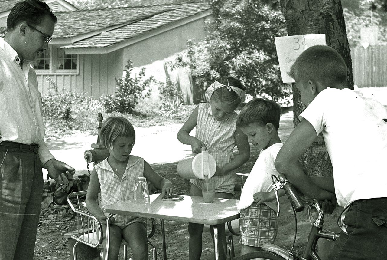 Children selling lemonade to an adult on Lyans Drive in La Canada, 1960 Other information Photo by George Garrigues